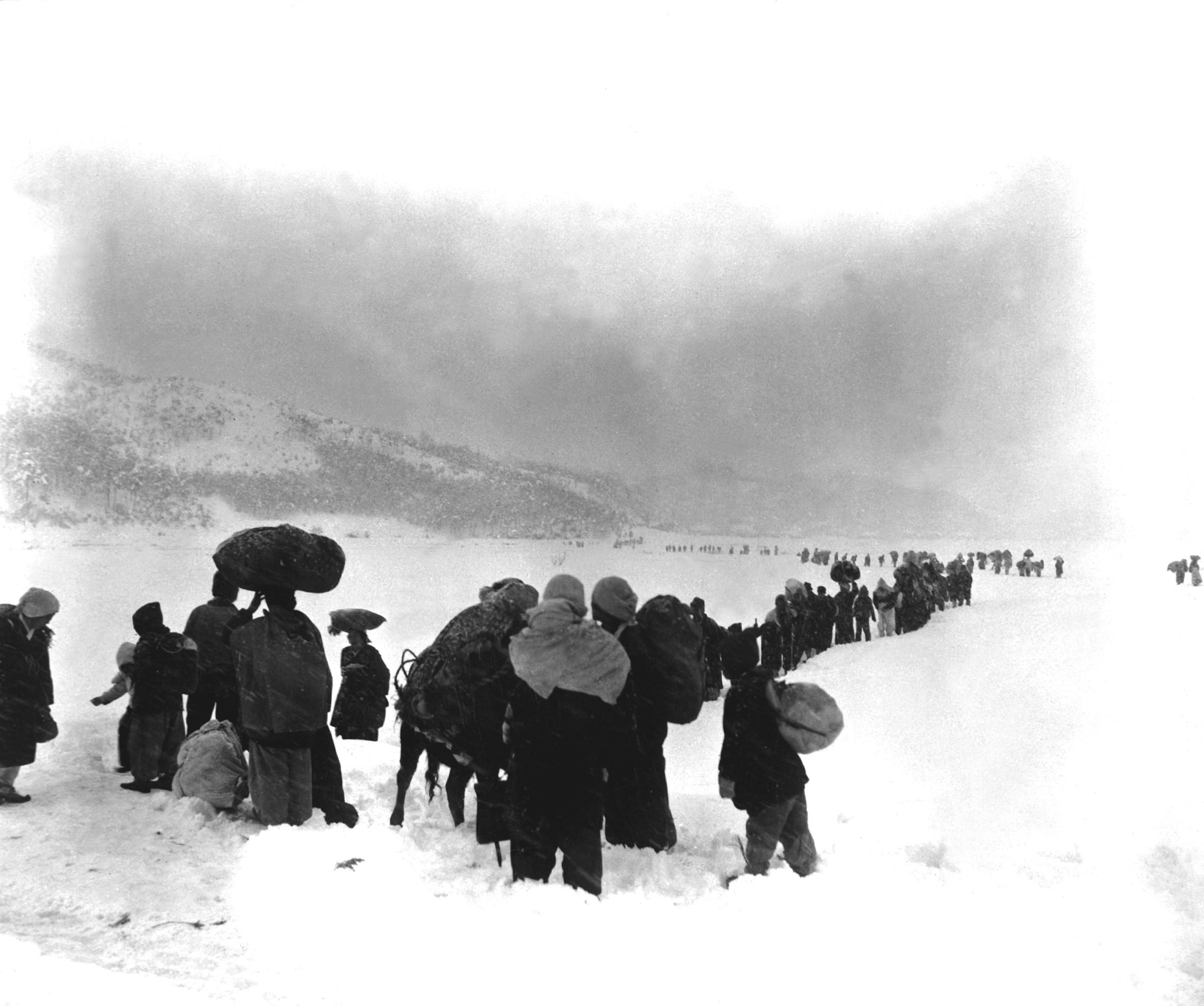 Long trek southward: Seemingly endless file of Korean refugees slogs through snow outside of Kangnung, blocking withdrawal of ROK I Corps. January 8, 1951. Cpl. Walter Calmus. (Army) NARA FILE #: 111-SC-356475 U.S. Army official Korean War image archive